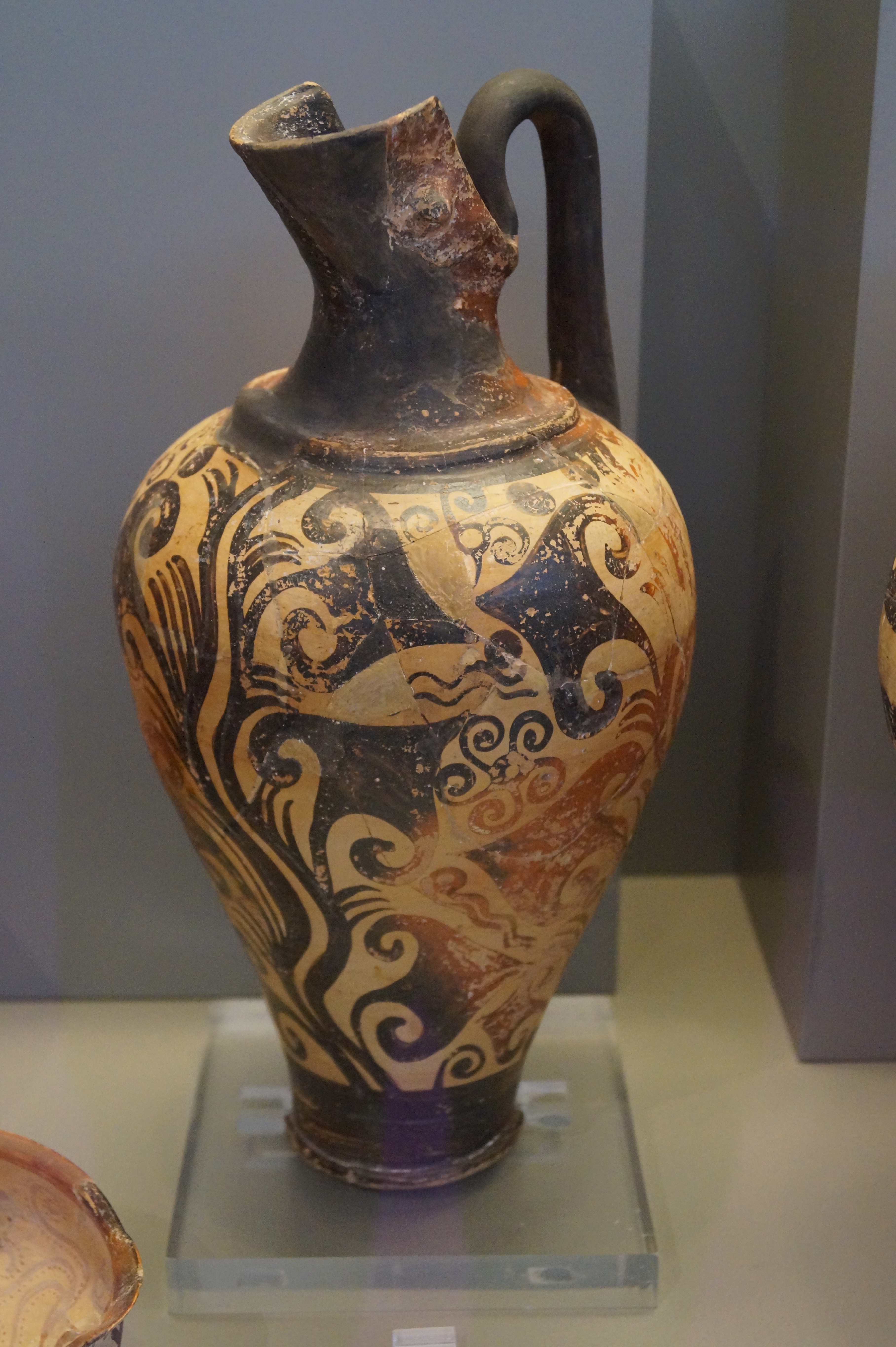 National Archaeological Museum of Athens: Lustrous painted pottery from grave I of grave circle A at Mykenae (NAMA 199).